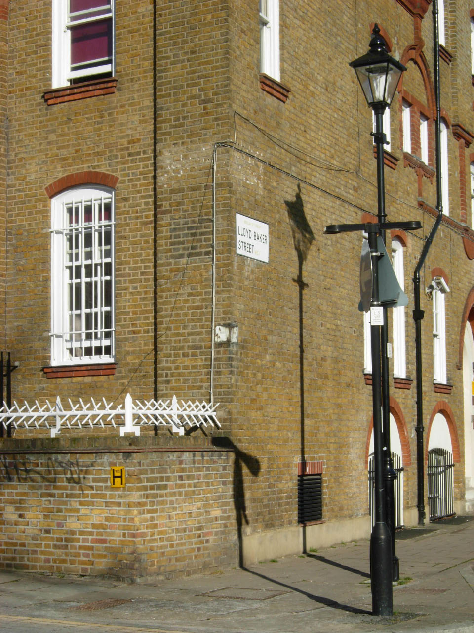 Bethany House, Lloyd Baker Street Part of Bethany House is seen here on the corner of Lloyd Square and Lloyd Baker Street. The building dates from 1881 and was originally the mother house of the Sisters of Bethany, a religious order for women within the Anglican Communion. The order still exists but Bethany House is now used as a hostel offering 94 units of accommodation for homeless young women and is run by Irish Centre Housing.